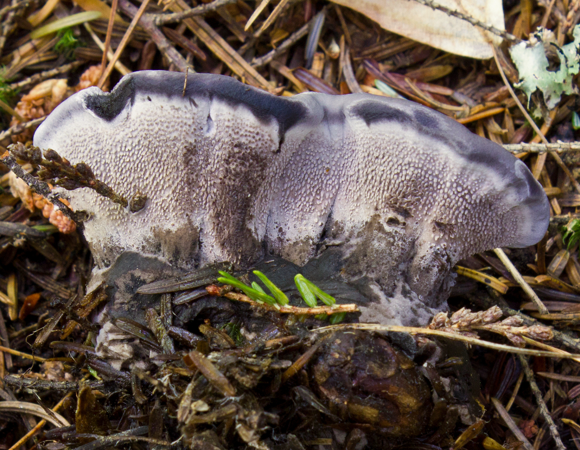 Phellodon niger (Fr.) P. Karst. Location: Oxford Co., Maine, USA Observation Notes: For more information about this, see the observation page at Mushroom Observer.